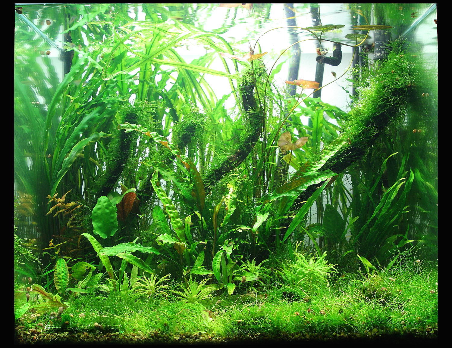 An aquatic garden with mostly Cryptocoryne species.